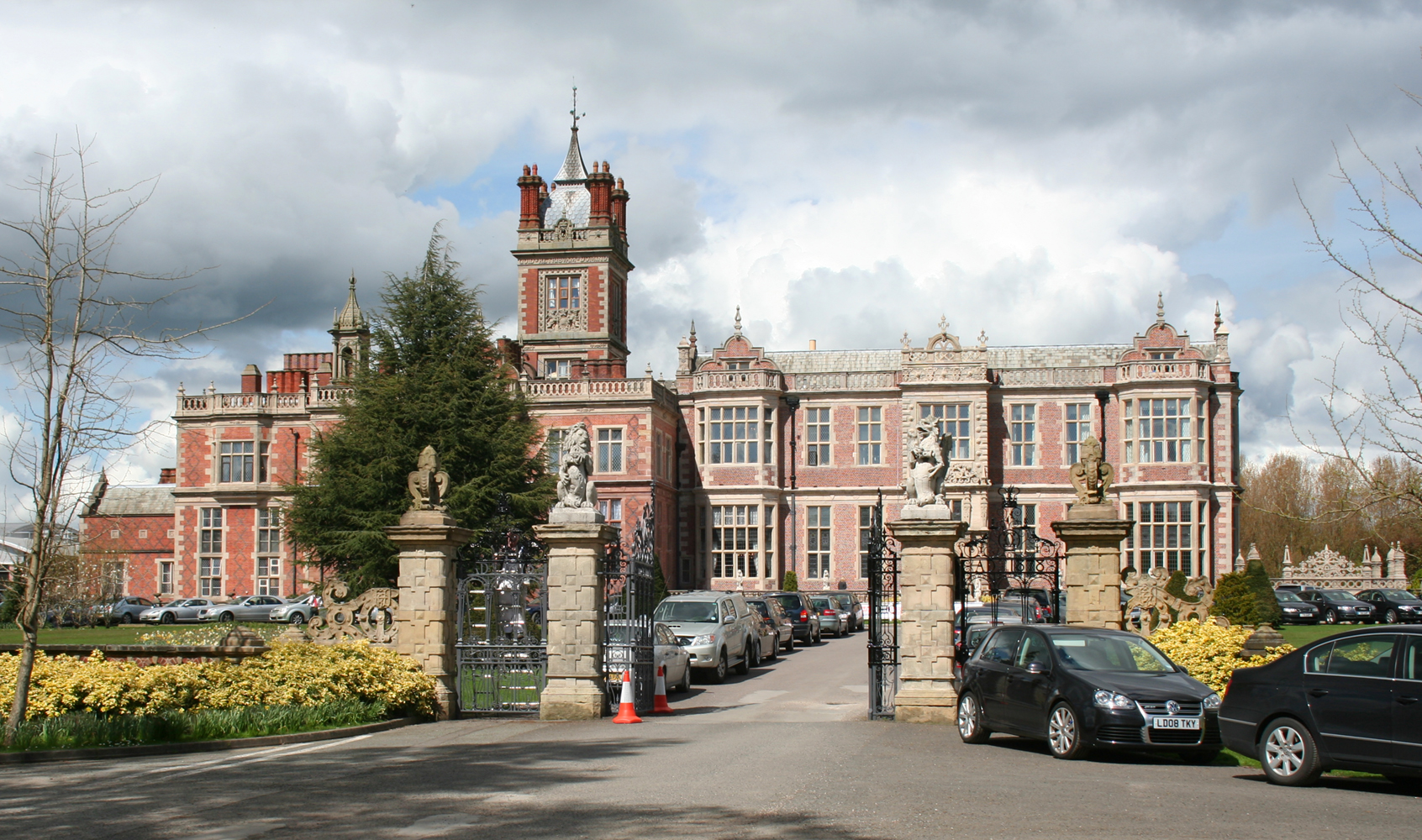 Crewe Hall, near Crewe, Cheshire. Front view showing gates